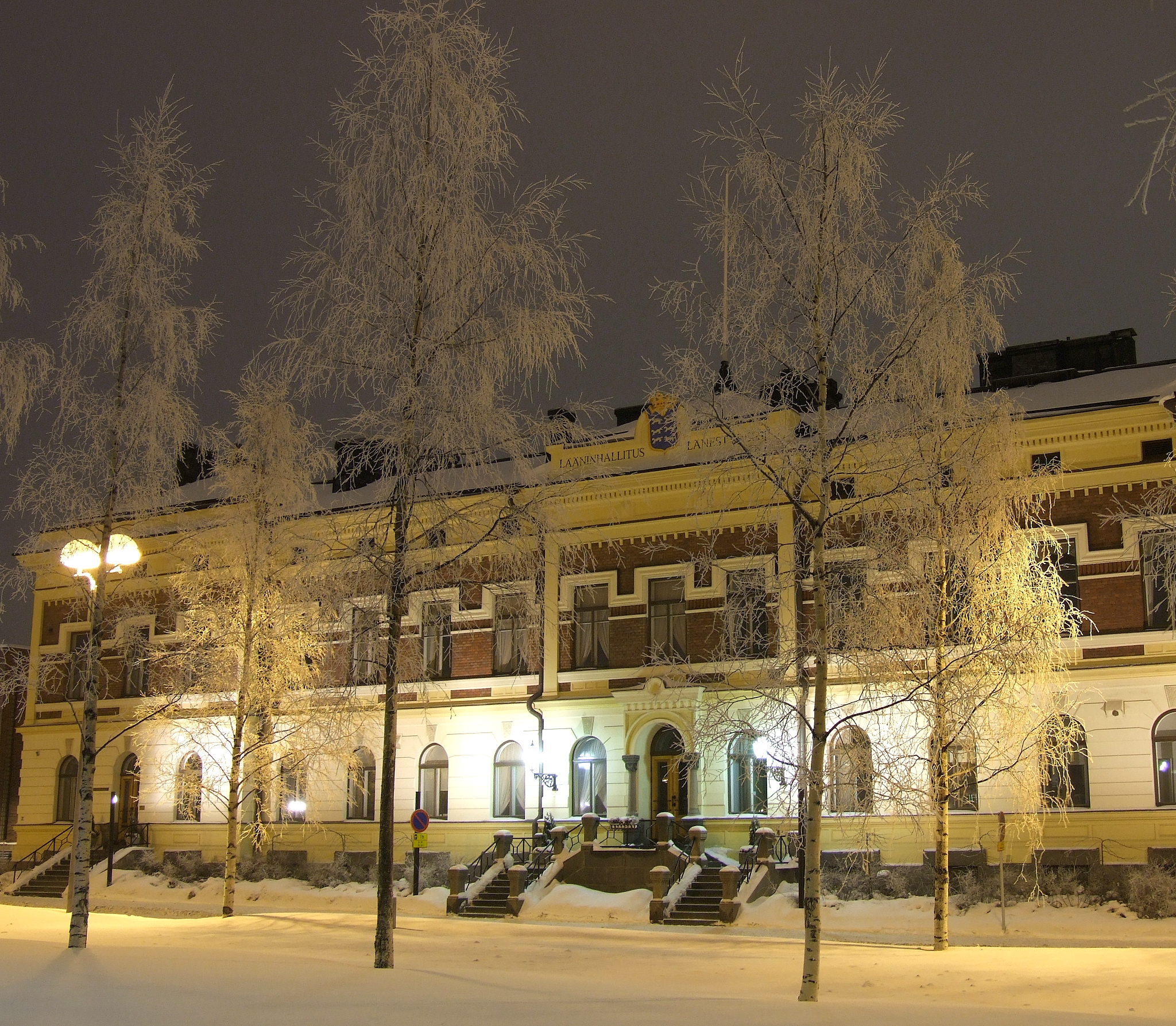 The Governor´s Residence in Oulu, Finland. The building was designed by architects Jacob Ahrenberg and Ludvig Isak Lindqvist in 1887. It was completed in 1890. It is situated on one side of the old monumental Franzén park with Cathedral, old Lyceum and other older buildings on the other sides.